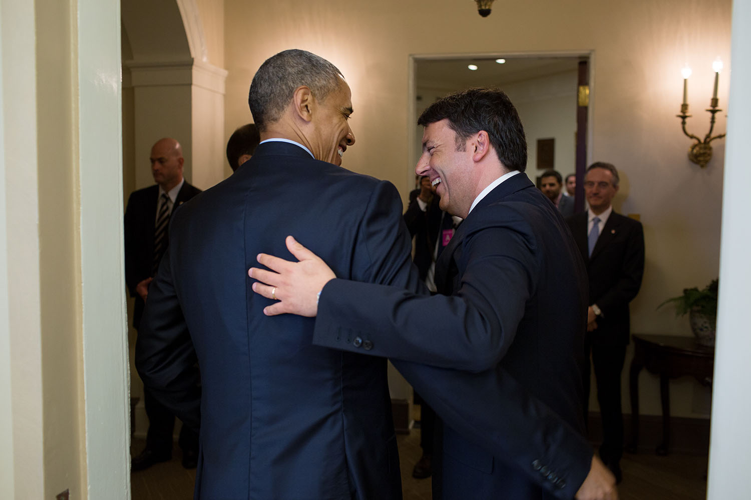 President Barack Obama greets Prime Minister Matteo Renzi of Italy prior to a bilateral meeting in the Oval Office, April 17, 2015. (Official White House Photo by Pete Souza) This official White House photograph is being made available only for publication by news organizations and/or for personal use printing by the subject(s) of the photograph. The photograph may not be manipulated in any way and may not be used in commercial or political materials, advertisements, emails, products, promotions that in any way suggests approval or endorsement of the President, the First Family, or the White House.